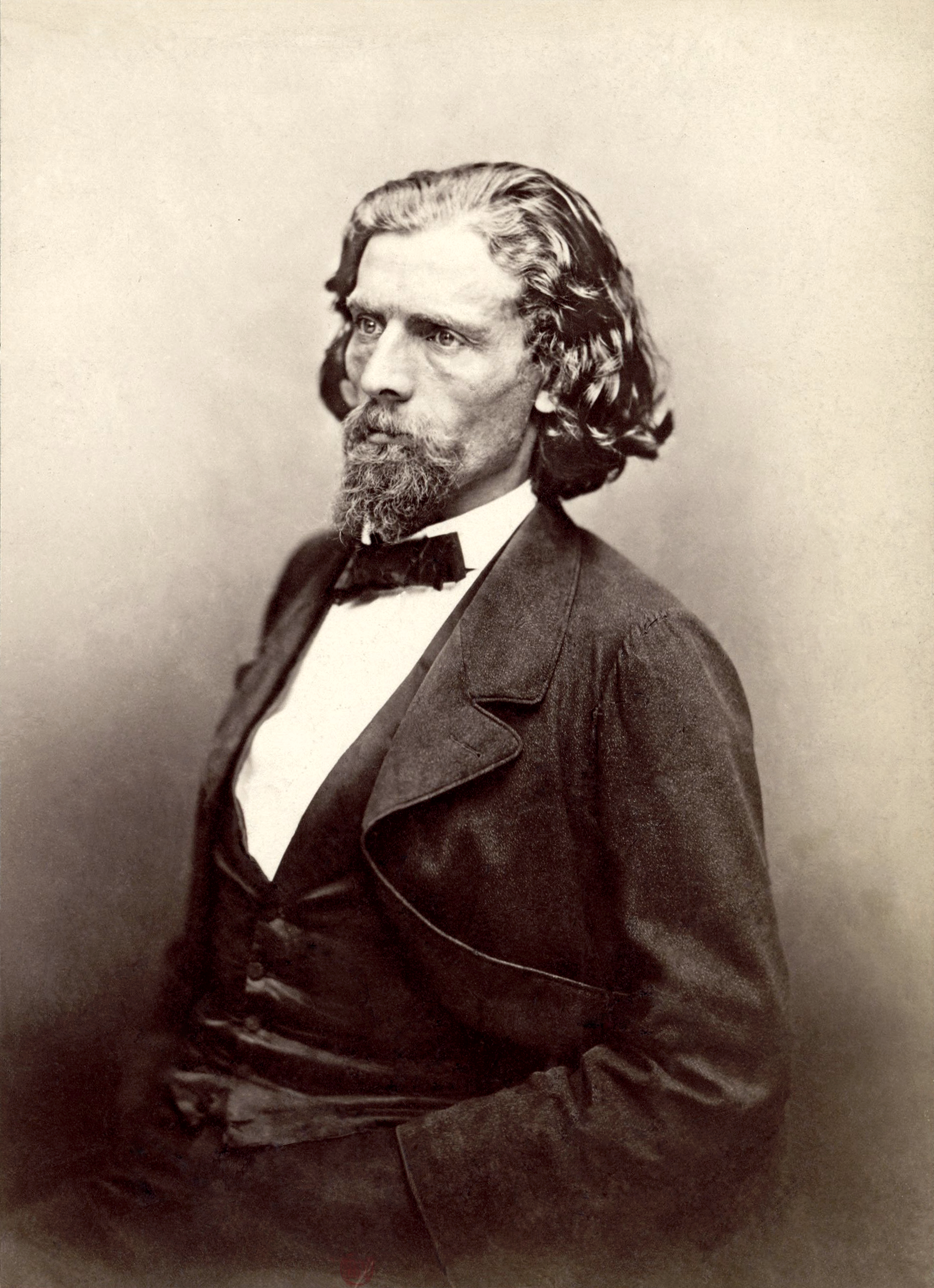 Photograph of Antoine Renard (1825–1872) French tenor.